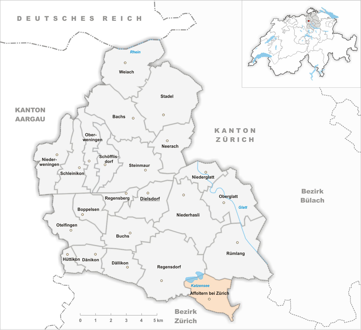 Municipality Affoltern